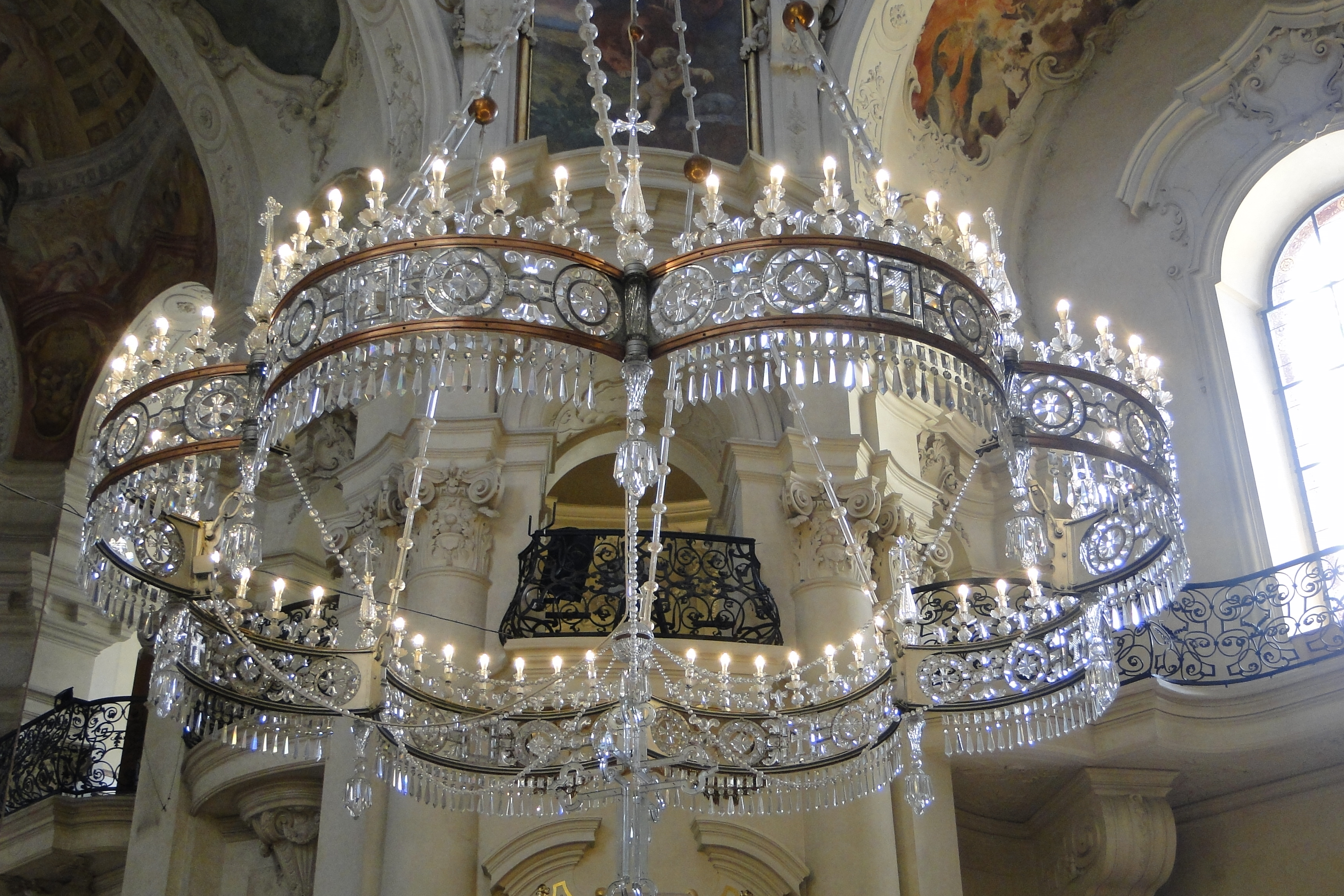 Chandeler from the glassmaker of Harrachov in the church of St. Nicholas in the Old Town of Prague